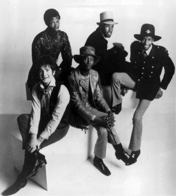 Publicity photo of the music group The Chambers Brothers.